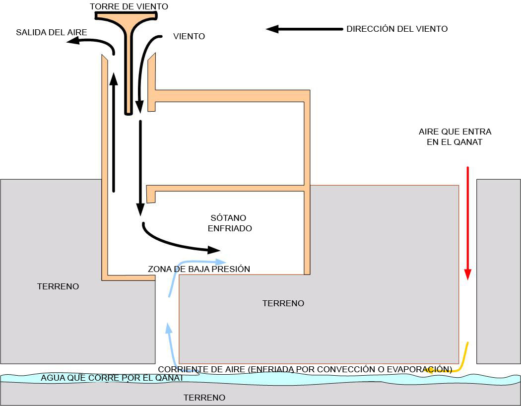 Illustration of use of wind tower and qanat for cooling. Illustration based on concepts as discussed in article by Bahadori, M. N. titled "Passive Cooling Systems in Iranian Architecture" Scientific American, February 1978, pages 144-154. Williamborg 04:35, 26 June 2006 (UTC)